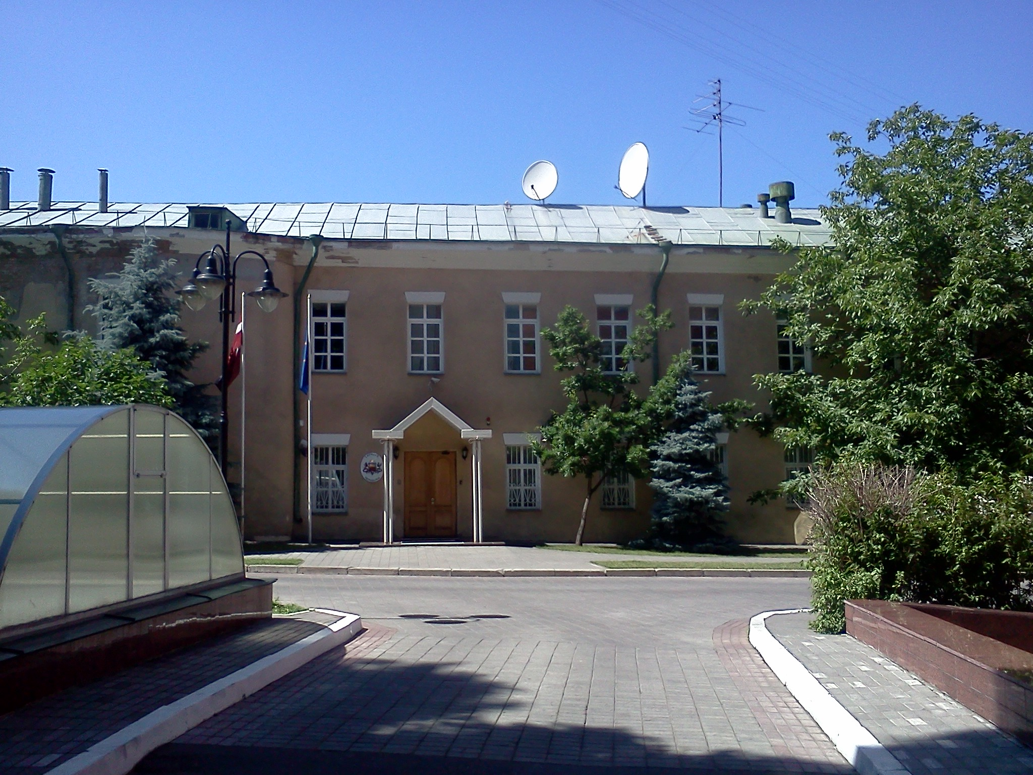 Embassy of Latvia in Kyiv